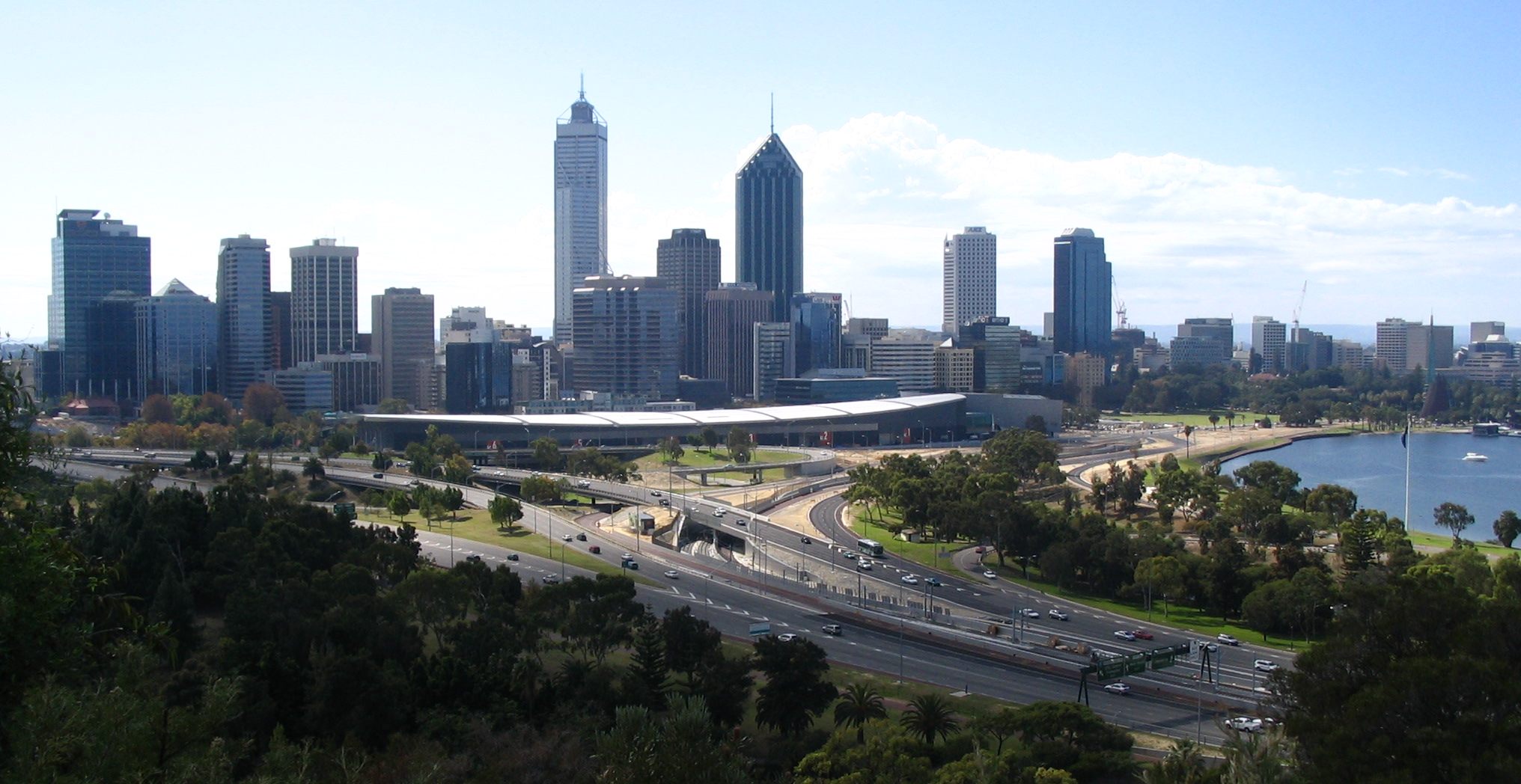 Central Perth as viewed from Kings Park, with Swan River on right. Cropped to a more panorama-like aspect ratio but not actually a panorama. The road in the foreground is the Kwinana Freeway, which here splits off into the Mitchell Freeway and Mounts Bay Rd.